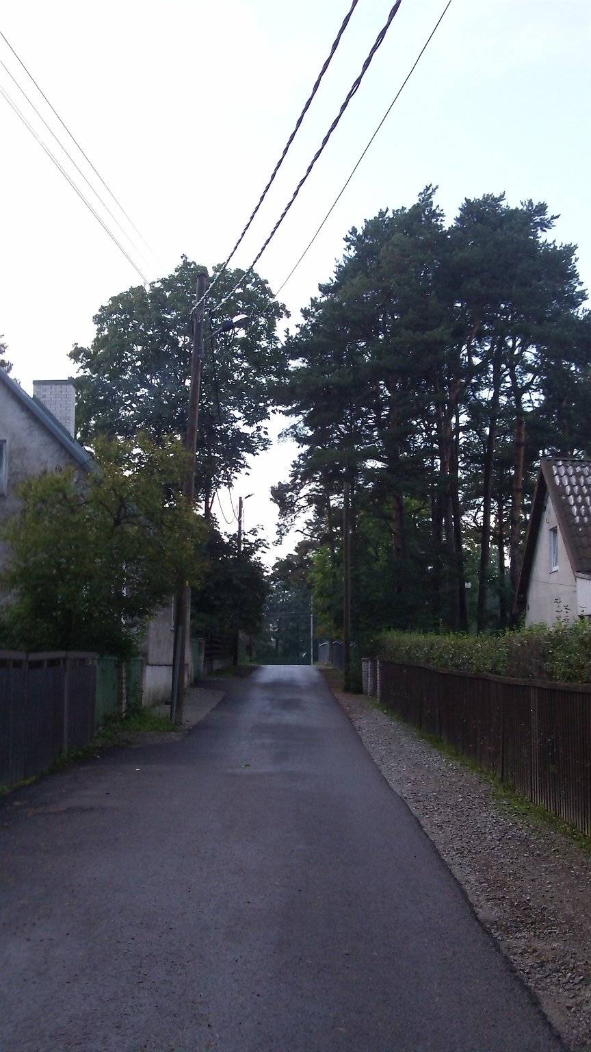 Kivi tänav, Rahumäe, Tallinn, Estonia